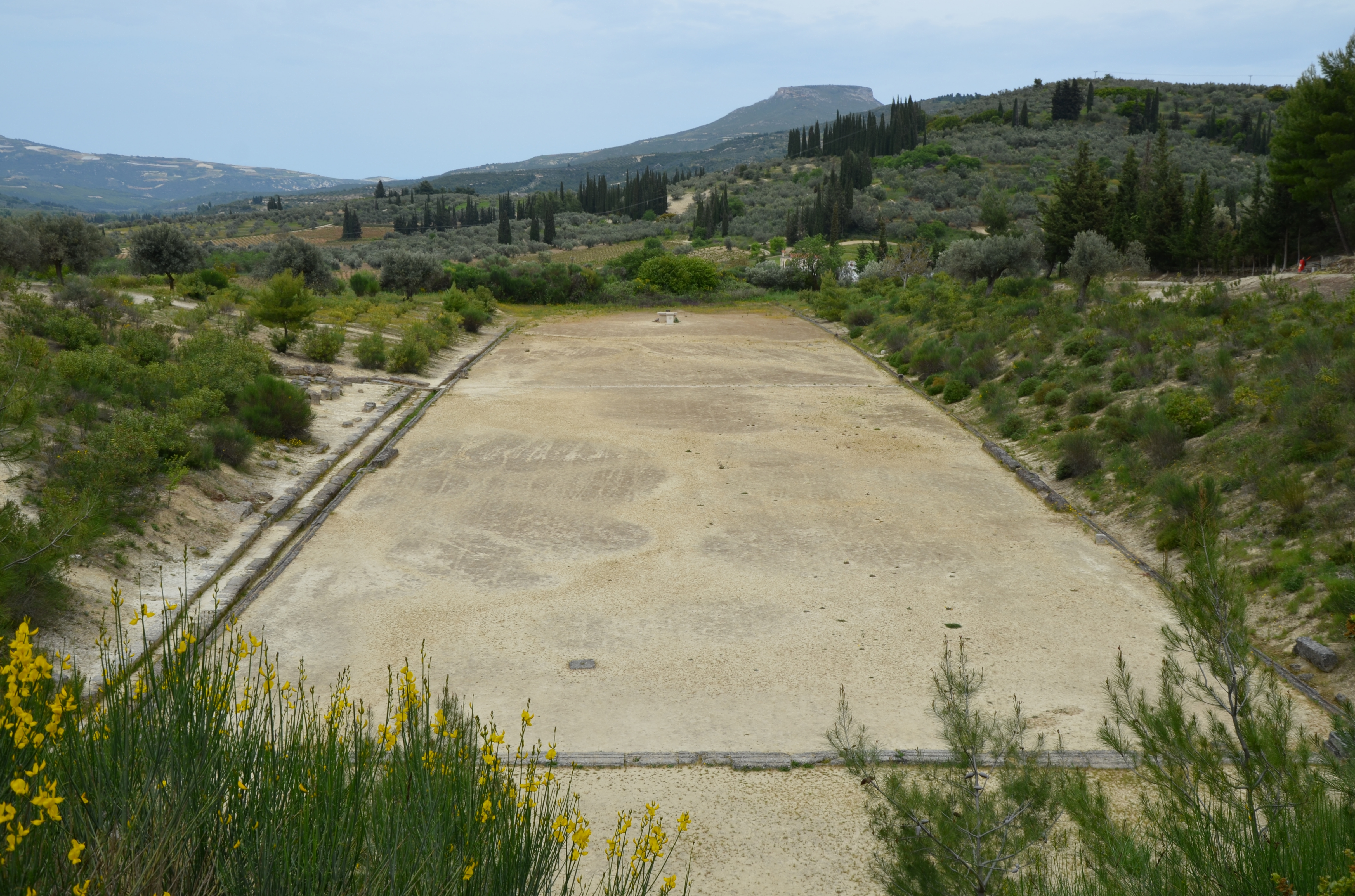 The Stadium of Nemea was constructed according to the whole reconstruction program of the wider area of Nemea, conceived by macedonian king Phillip II and his successors between 330 - 300 B.C. This is the place where the Nemean Games were held in honor of them mythological baby Opheltes. Participants and visitors flooded the area to attend the celebrations and games. The proccession arrived to the stadium from the Sanctuary of Zeus which was approximately 400 metres away. A large number of spectators were seated at the ancient stadium although limited stone seats existed along the west side of the track. The earth was so soft that it allowed the seats to be carved into the rock. Thus 40.000 people were accomodated within the stadium except for the north side, where no seating arrangements were ever made concidering the results of the excavation. To the southeast of the stadium the Hellanodikai were seated in a special section as to stand out from the rest of the attendants, watch the races unhindered and come to a judgment. The length of the track was 178 metres, its edges covered by a stone - water - channel with an addition of stone basins for drinking water and watering the terrain to keep dust on the ground, to facilitate the atletes' effort. Successful efforts resulted to a crown of celery placed on the athlete's head. The athletes, judges and trainers walked into the stadium after exiting the vaulted tunnel that communicated with the western side of the stadium area where the "Apodyteria" (changing room or locker room) were located. Although the tunnel was originally covered up in debris, the excavation brought to light the particularity of this vault which is the earliest of ancient Greece (320 B.C). Scratches against the wall are preserved, probably while the athletes waited to be called for. Source